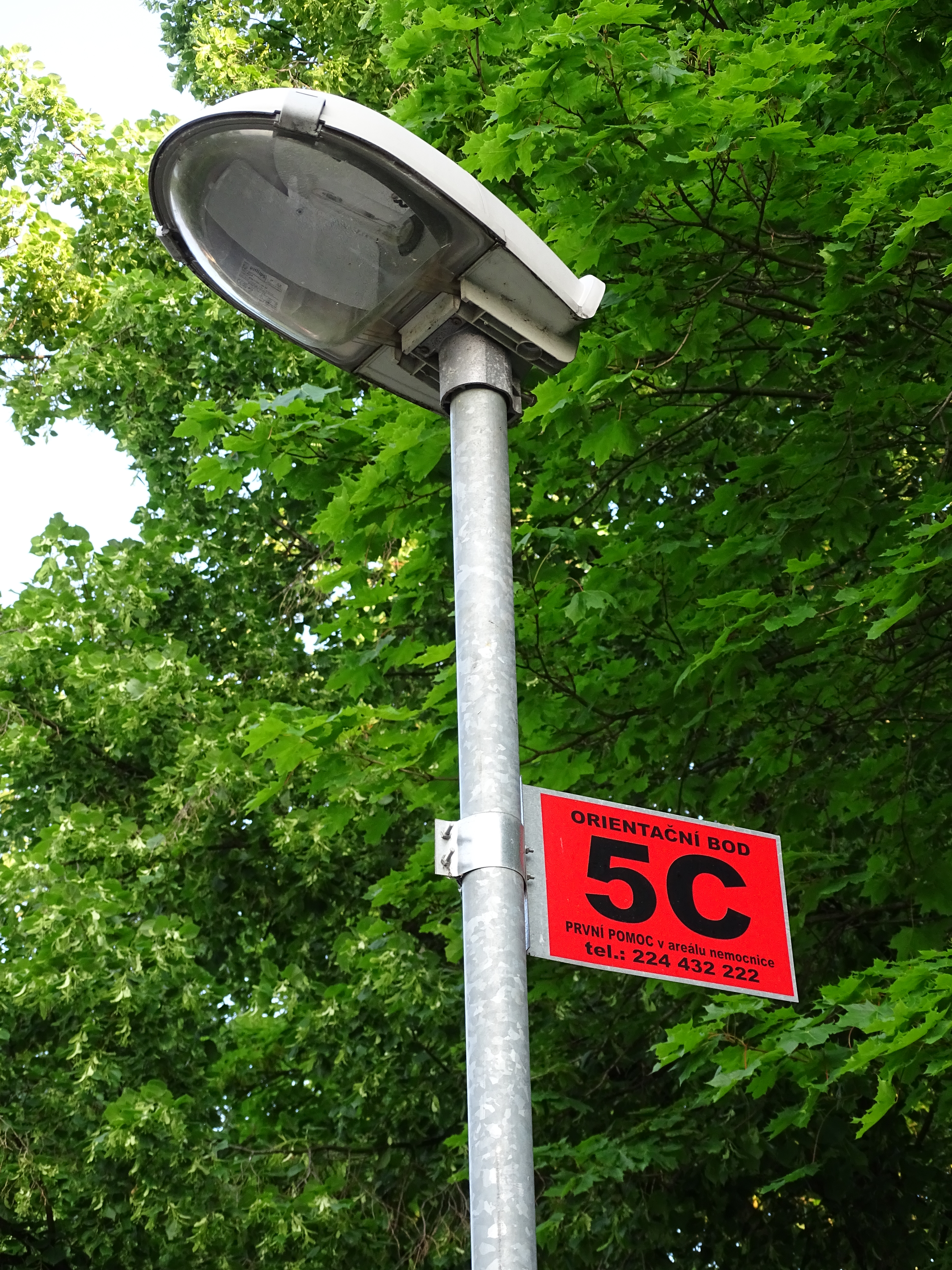 Prague-Motol, Czechia, Motol Hospital, a rescue point.